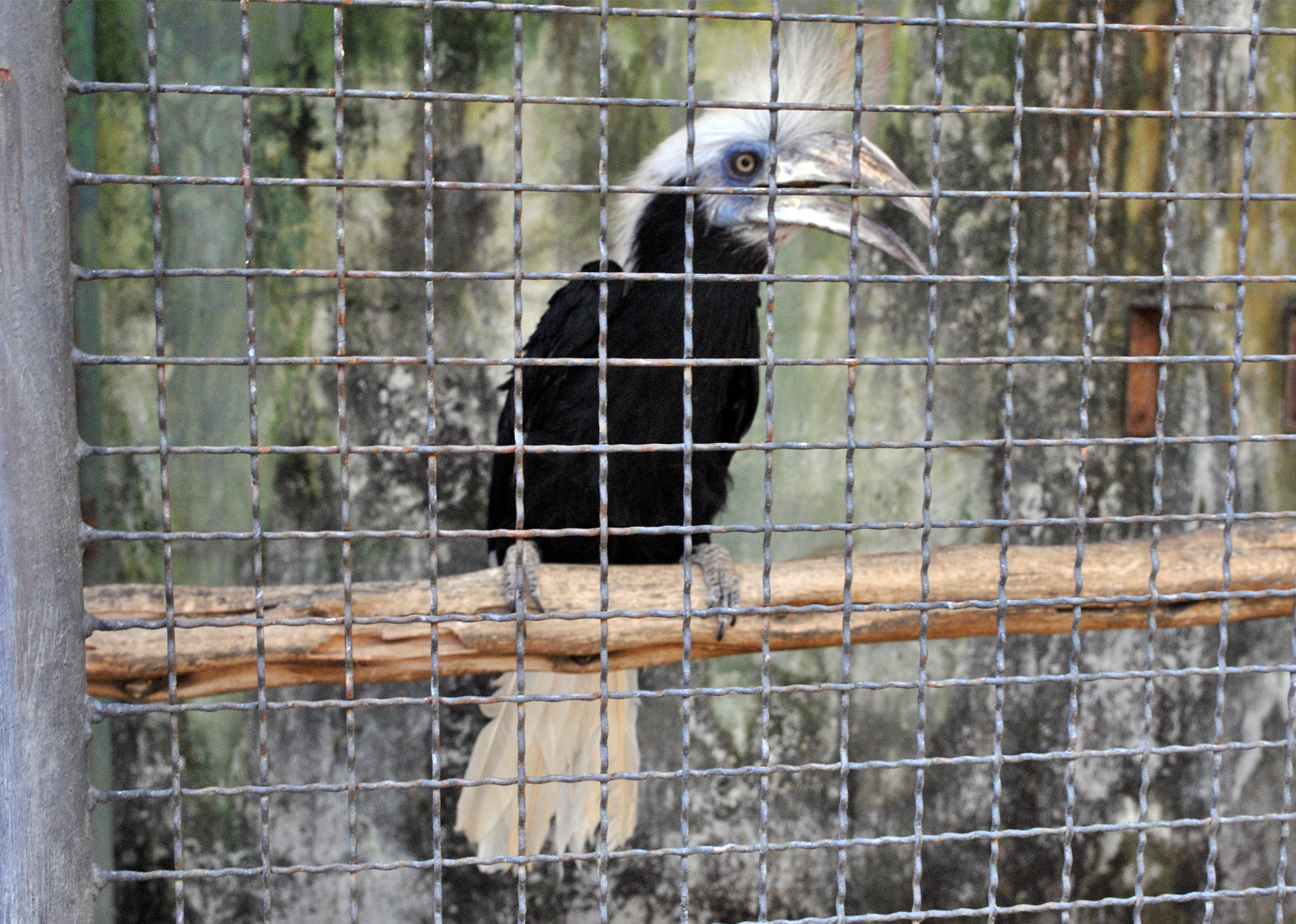 White-crowned hornbill in Pata Zoo